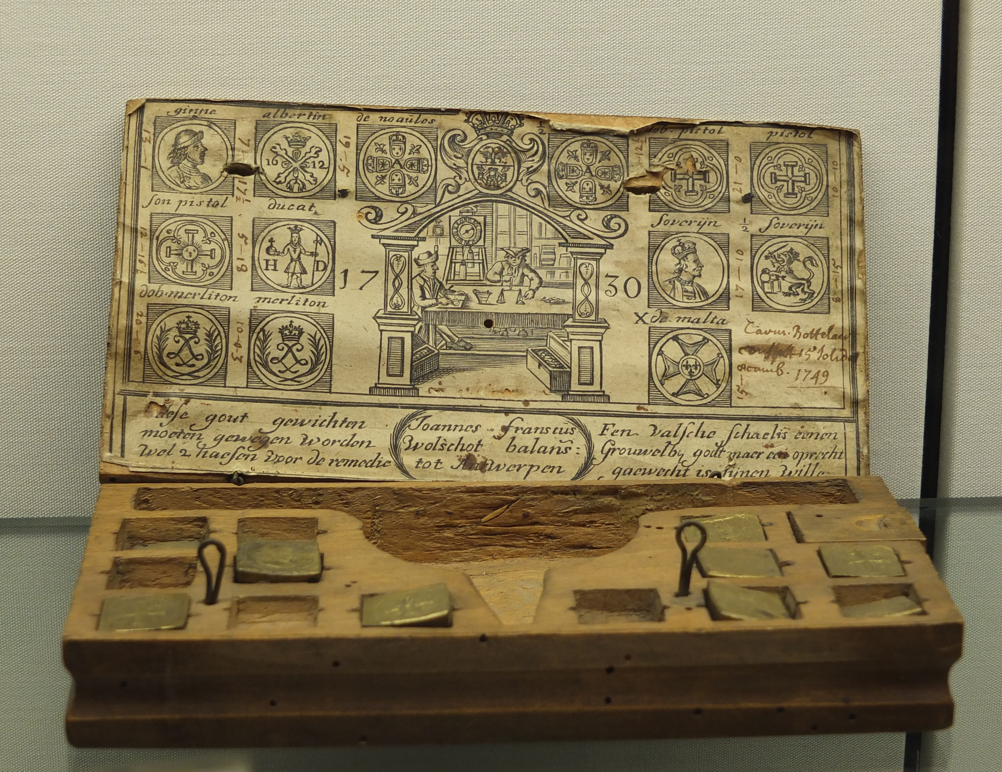 Box with coin weights by the Antwerp weight maker Joannes Franciscus Wolschot (father) and with the sign of Jacobus Franciscus Neusts. Wood and yellow copper, 1730. Museum Vleeshuis, Dendermonde.